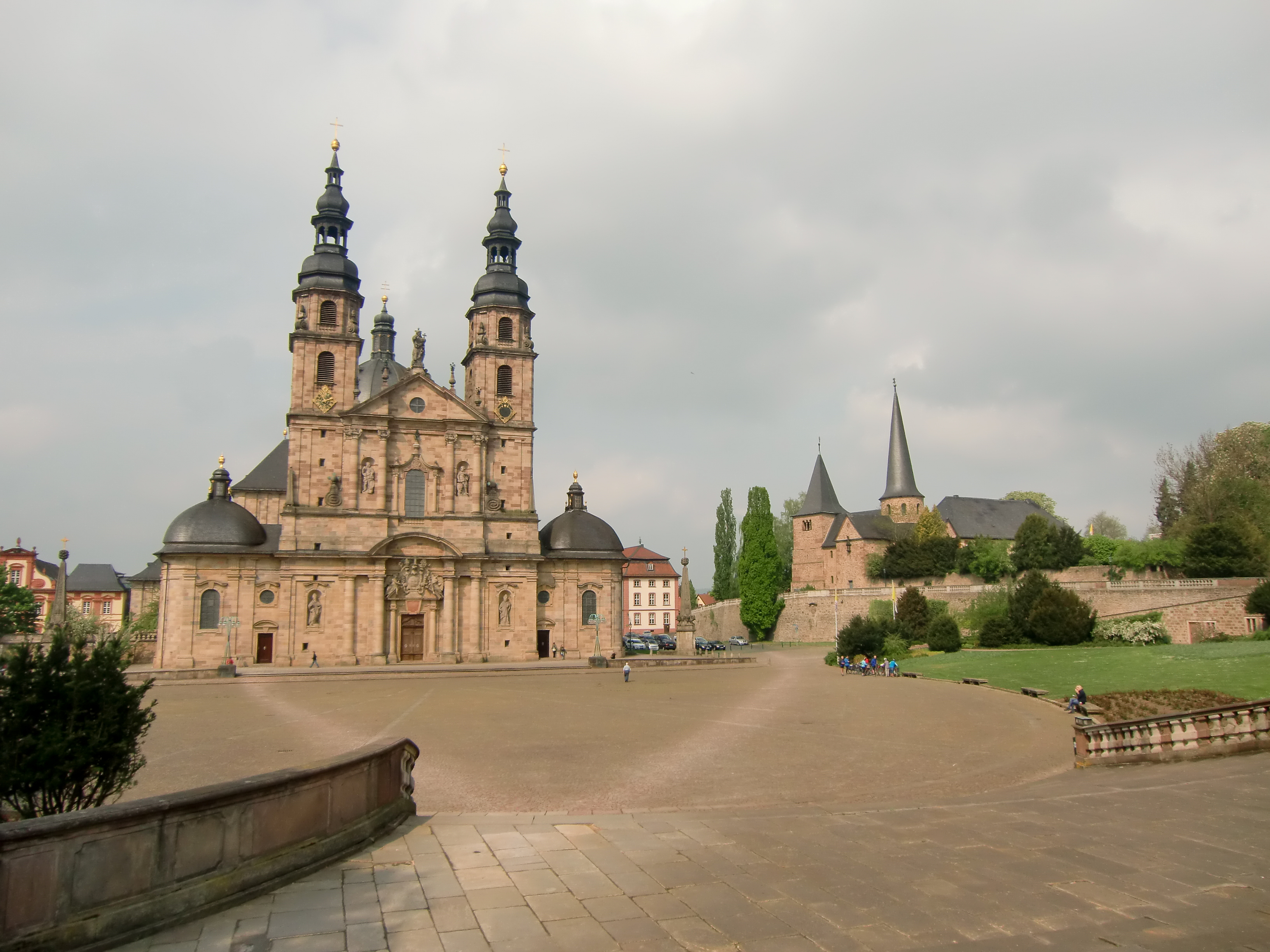 Cathedral square in Fulda showing Fulda Cathedral and St. Michaelskirche Fulda